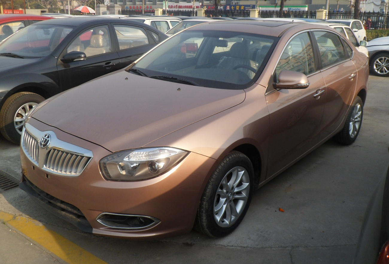 Brilliance H530 photographed in Shanghai, China.